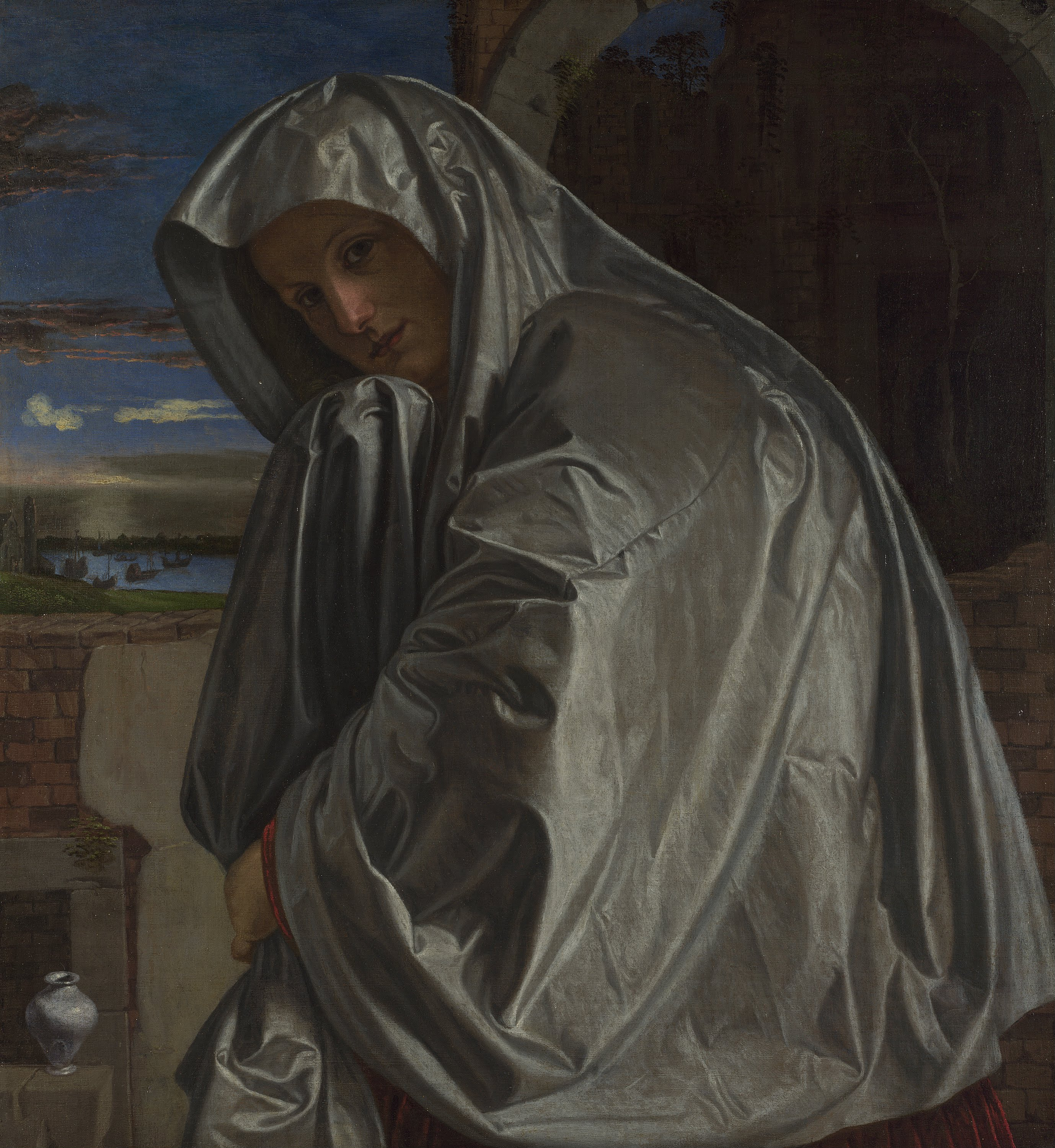 On the Sunday morning after the Crucifixion, Mary Magdalene visited the tomb of Jesus, but found it empty. The story is recounted in the New Testament (John 20), and Mary Magdalene is here identified by the pot of ointment with which she anointed Christ's body, and by the glimpse of her traditional red dress beneath a silver-grey cloak. She was the first person to see Christ after the Resurrection. Several other versions of this composition by Savoldo are known. The landscape background appears to represent Venice and its lagoon.